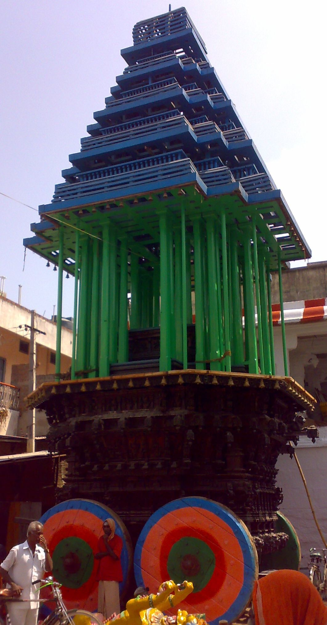 This is the Srikalahasti temple Chariot used during the Mahashivaratri festival In the indian state of Andhra pradesh